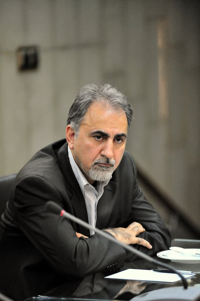 Dr. Ali Najafi Tehran Islamic City Council (شورای شهر تهران) The meeting room was full of crowd today. Some people didn't have any seat. They were families of arrested, disappeared and killed politicians, journalists, lawyers and normal people who was arrested during the election aftermath. Families introduced themselves and talked about their problems, and the fact that they are unable to contact their son/daughter/sister/brother/father. And that they are under physical, neural and mental torture. Even a mother told that she heard that her daughter is being raped in jail. More photos